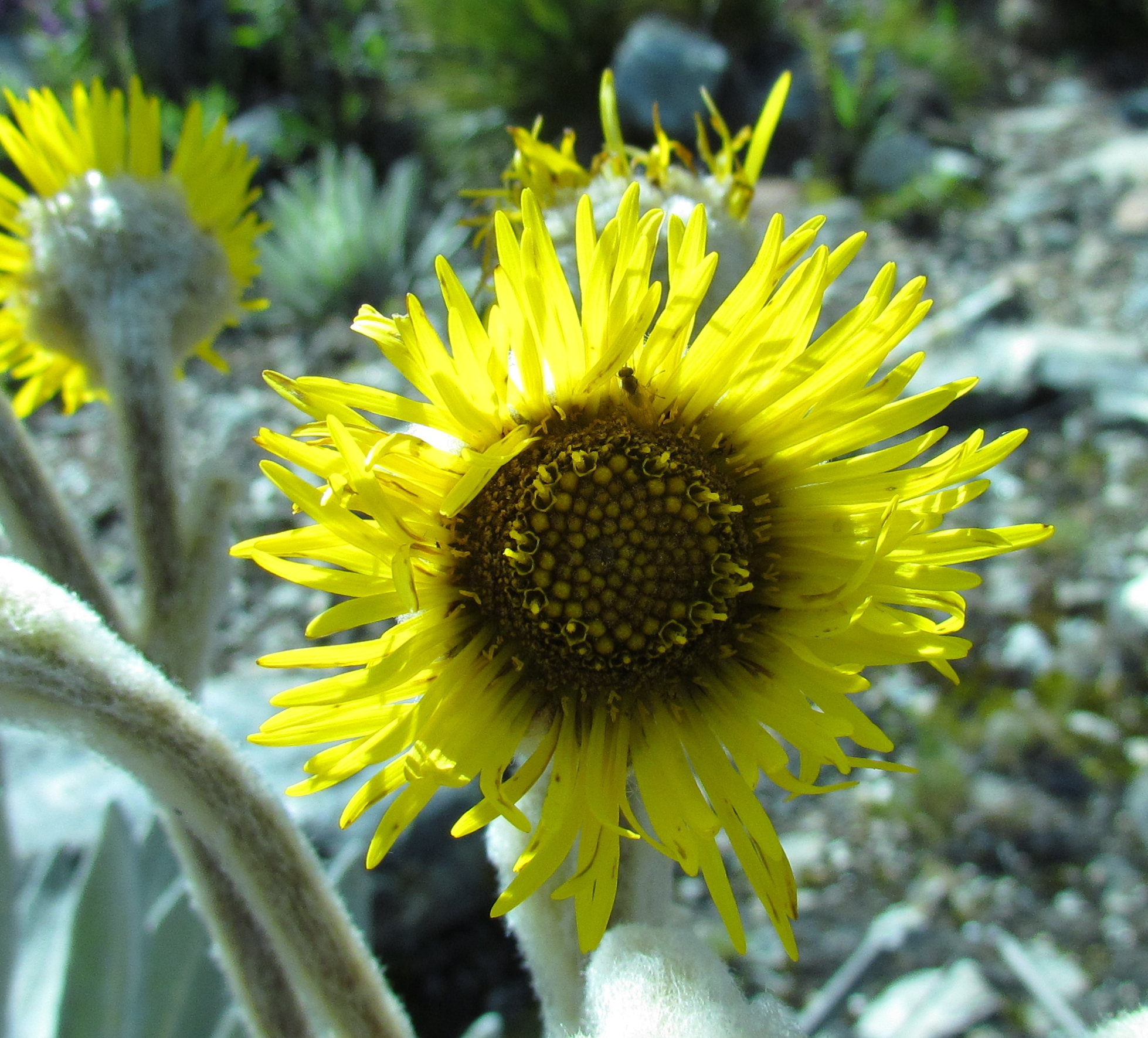 Espeletia of Laguna Verde, Sierra Nevada, Merida State, Venezuela.